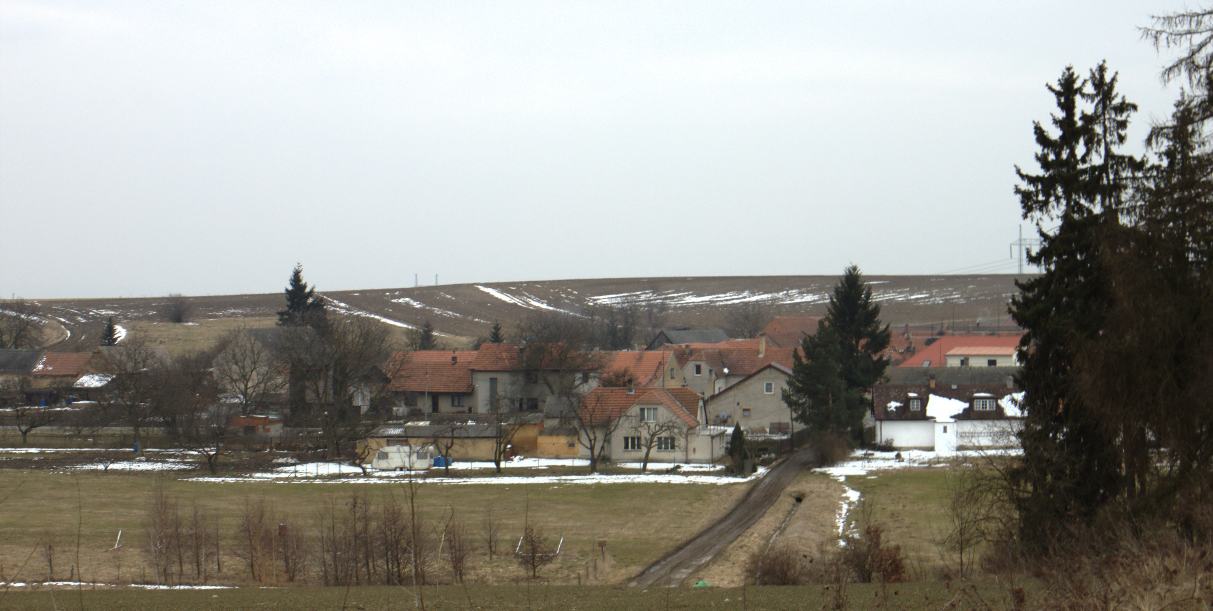 The village of Ždáry seen from a nearby hill, Central Bohemian Region, CZ